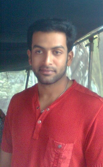 South Indian FilmStar PrithviRaj